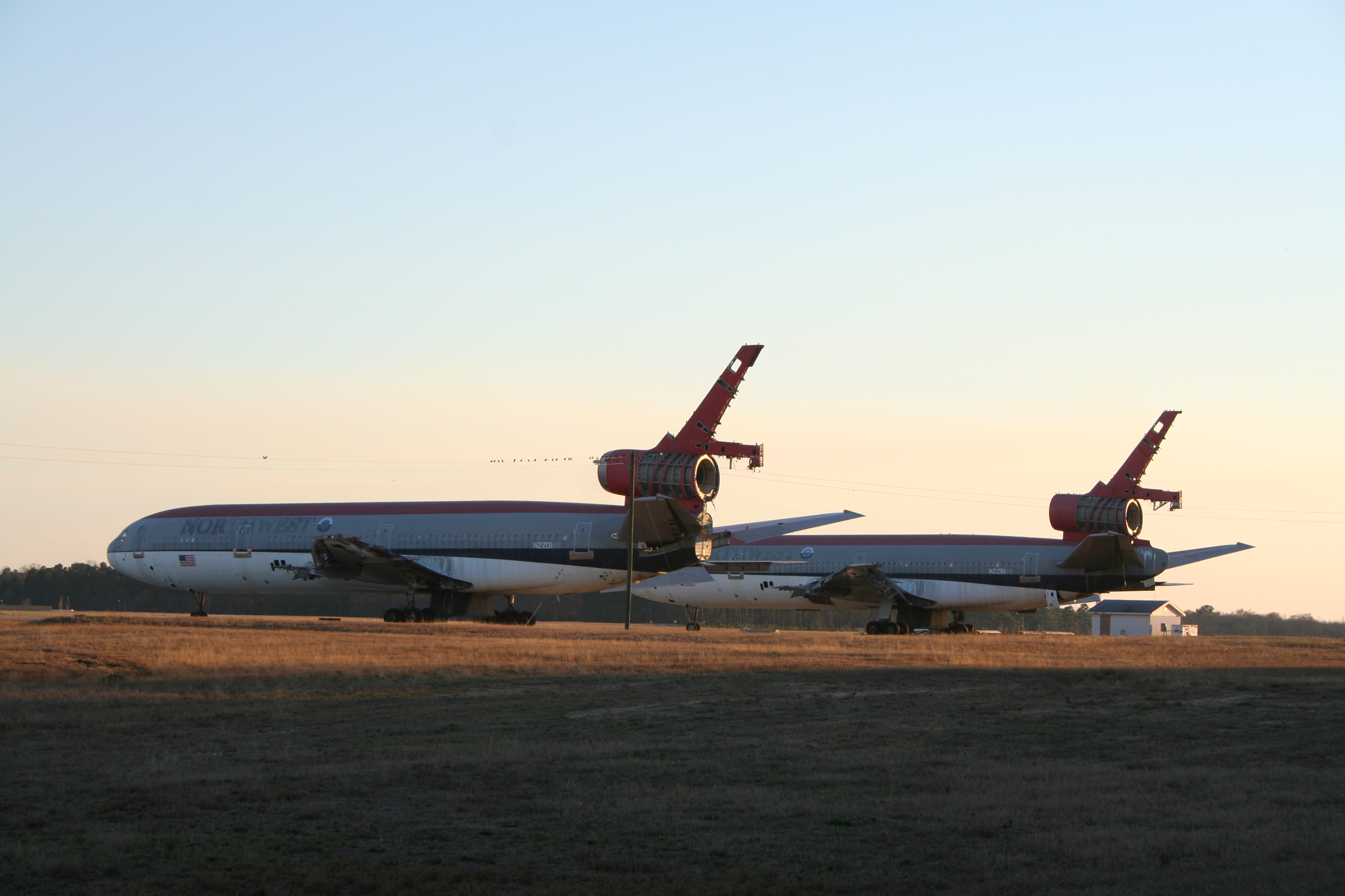 Former Northwest Airlines aircraft being scrapped for parts and metal at Laurinburg-Maxton Airport in Maxton, North Carolina.